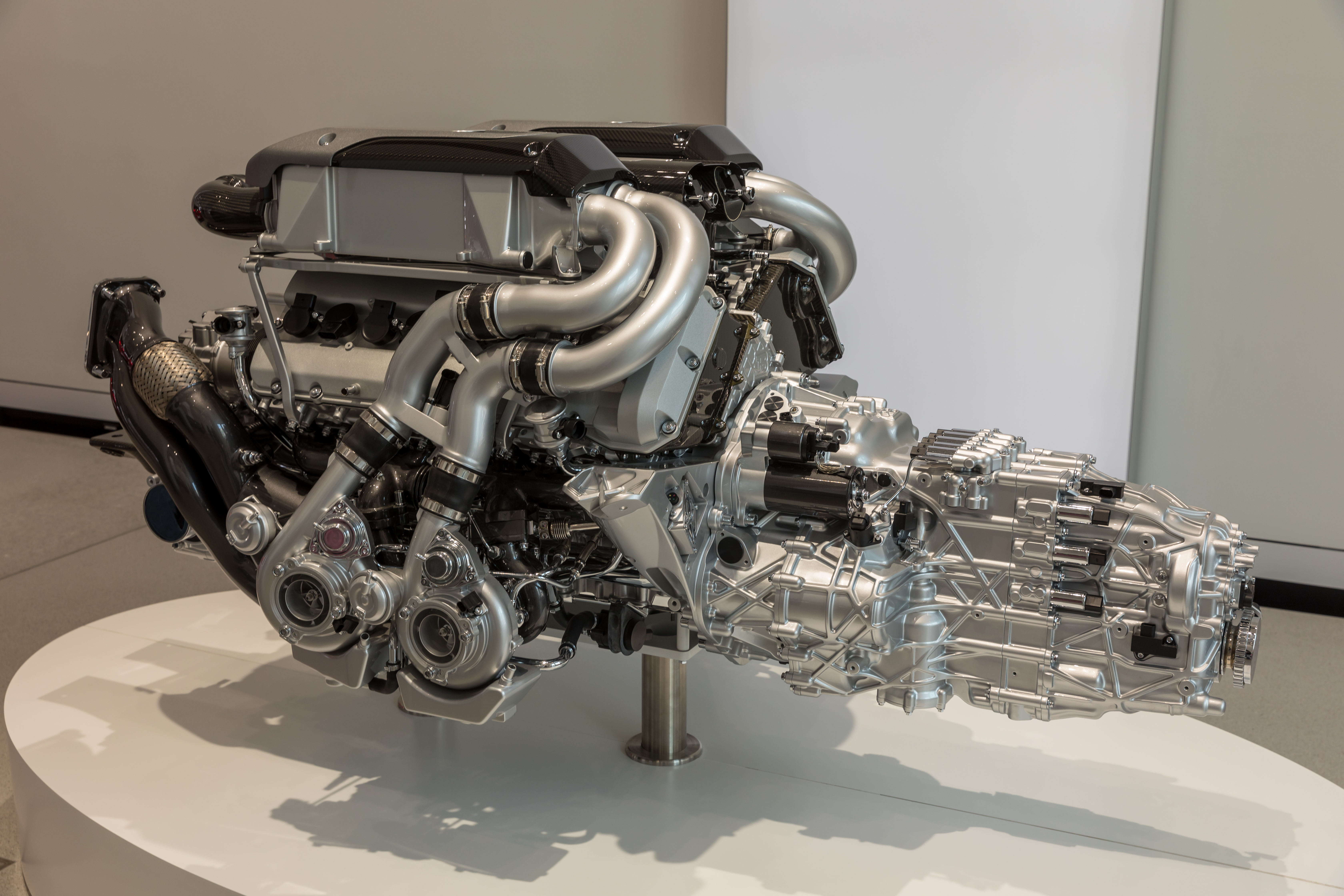 Bugatti Chiron engine, DRIVE. Volkswagen Group Forum, Berlin